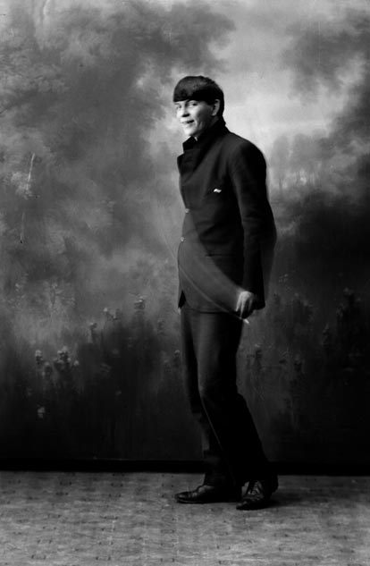 Guðmundur Thorsteinsson, Muggur, 1910-1920. Format: Kabinett-glerplata / Cabinet Glass negatives, 12,5 x 16 cm. Höfundarréttur / Rights Info: Enginn þekktur höfundarréttur / No known restrictions on publication. Geymsla / Repository: Ljósmyndasafn Reykjavíkur / Reykjavík Museum of Photography, Tryggvagata 15, 6. Hæð / 6th floor Númer myndar / Call Number: MAÓ 3213 Myndavefur Ljósmyndasafnsins / Reykjavík Museum of Photography´s photoweb: ljosmyndasafn.reykjavik.is/fotoweb/Grid.fwx